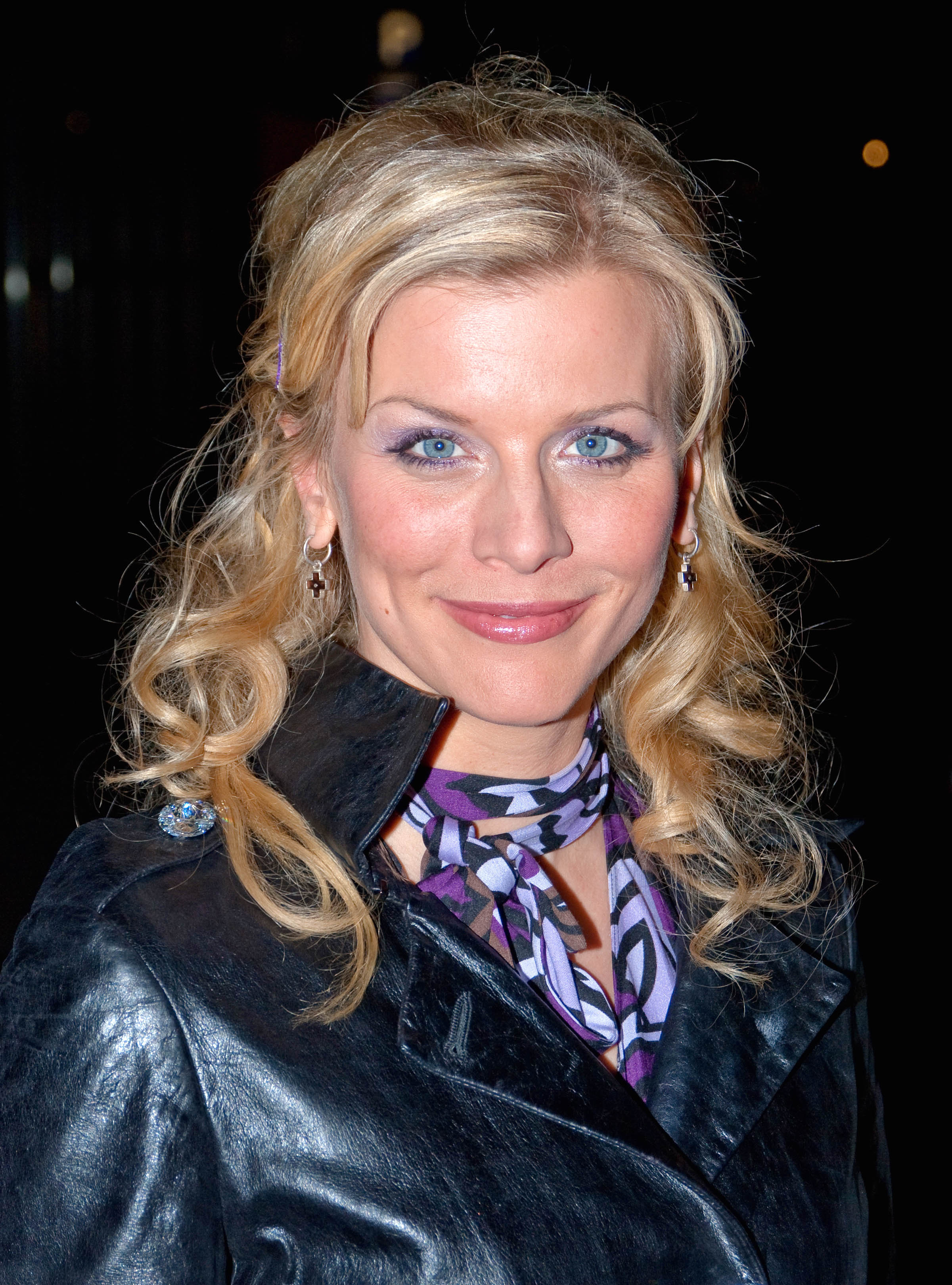 German actress Eva Habermann at the 59th Berlin International Film Festival